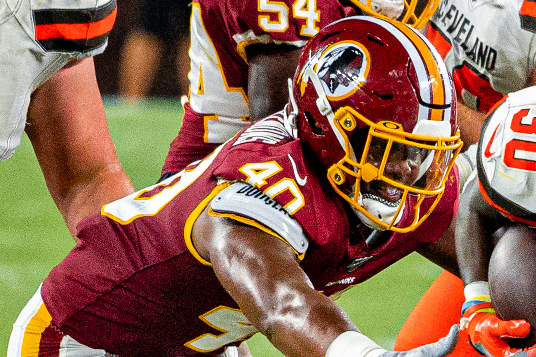 Washington Redskins linebacker, Josh Harvey-Clemons, playing in a preseason game against the Cleveland Brownson August 8, 2019.